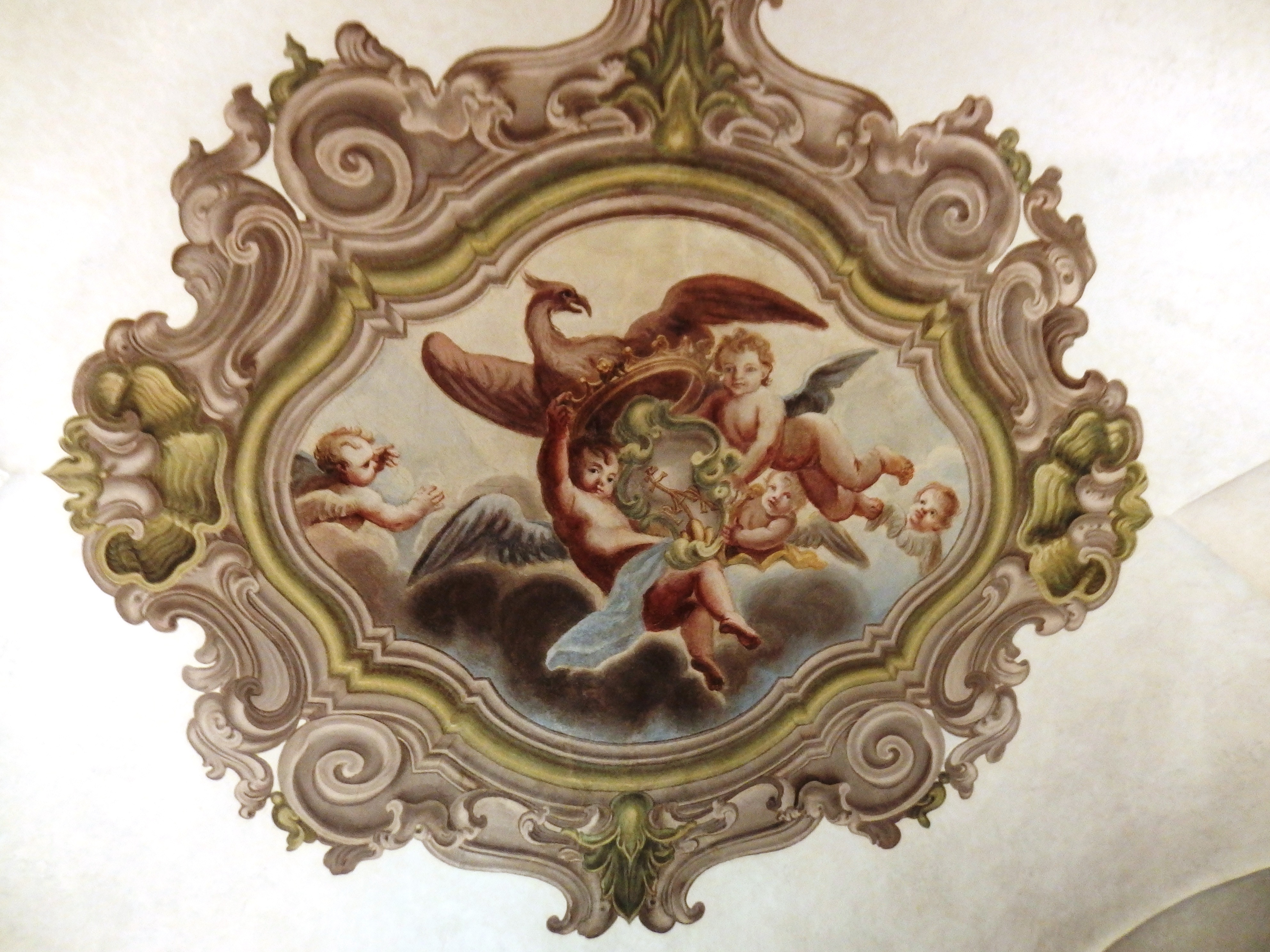 Parma, Italy. Ancient pharmacy at the Monastery of Saint John the Baptist.